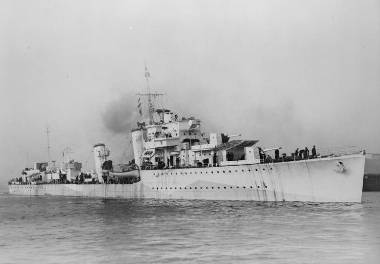 Photograph of British F class destroyer HMS Forester.